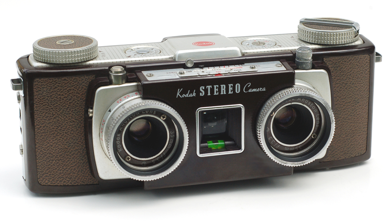 The Kodak Stereo Camera was made from 1954-59, and takes 24mm square exposures on standard 35mm film. Its body is made of brown bakelite, and it has a handy bubble level which you can see when you look through the viewfinder. I got lucky with this one -- it had a "buy it now" of $15 !